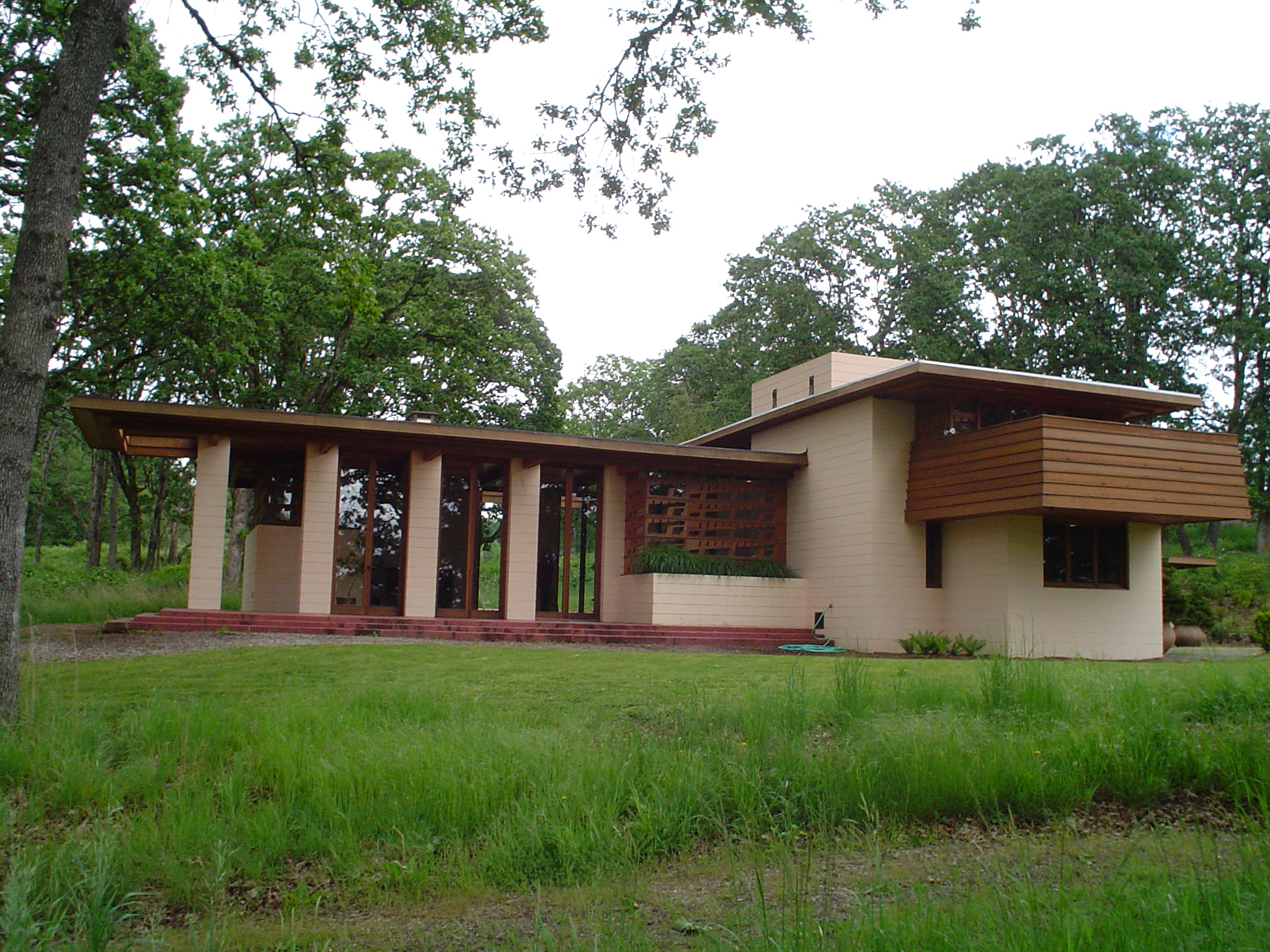 The Gordon House by architect Frank Lloyd Wright, located in Silverton, Oregon, United States.